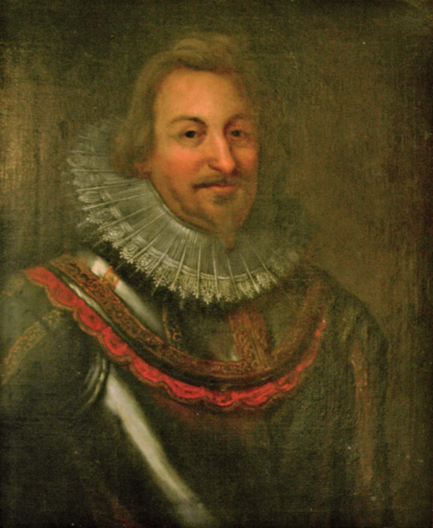 Donough O'Brien, 4th Earl of Thomond.